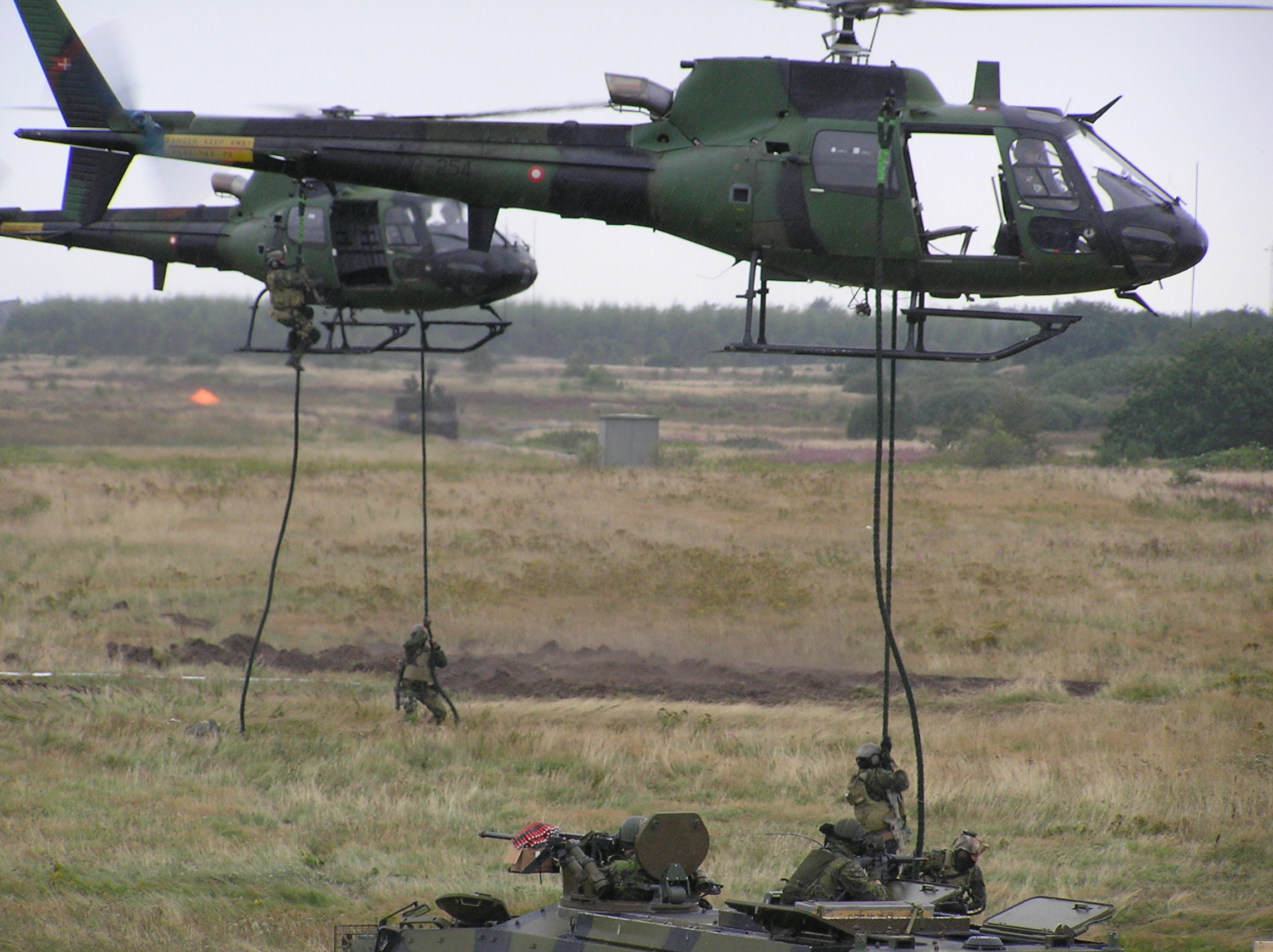 Soldiers emerging from two danish airforce Fennec helicopters at the public display SIKU 07